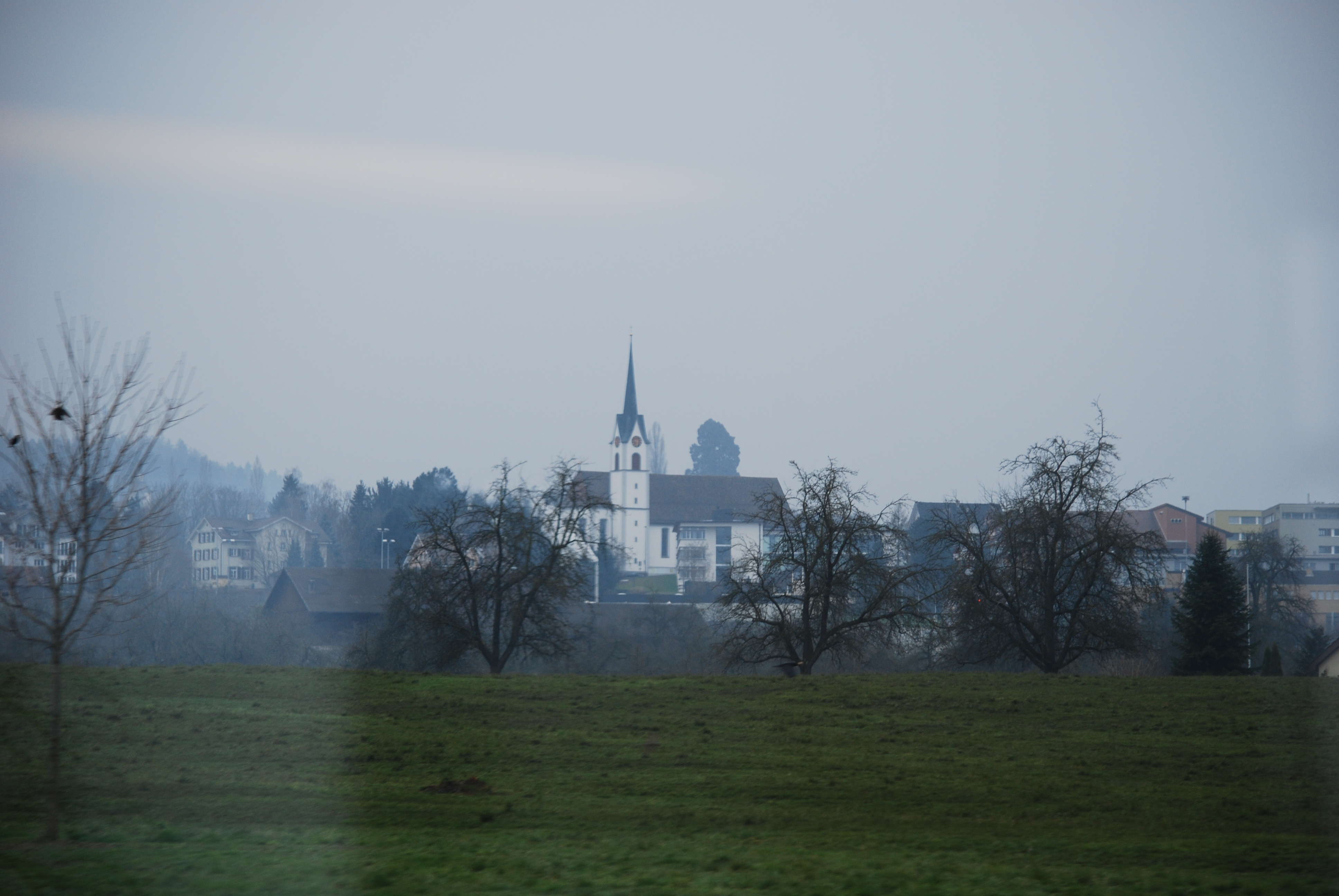 Mörschwil, canton of St. Gallen, SwitzerlandEsperanto: Mörschwil, Kantono Sankt-Galo, Svislando